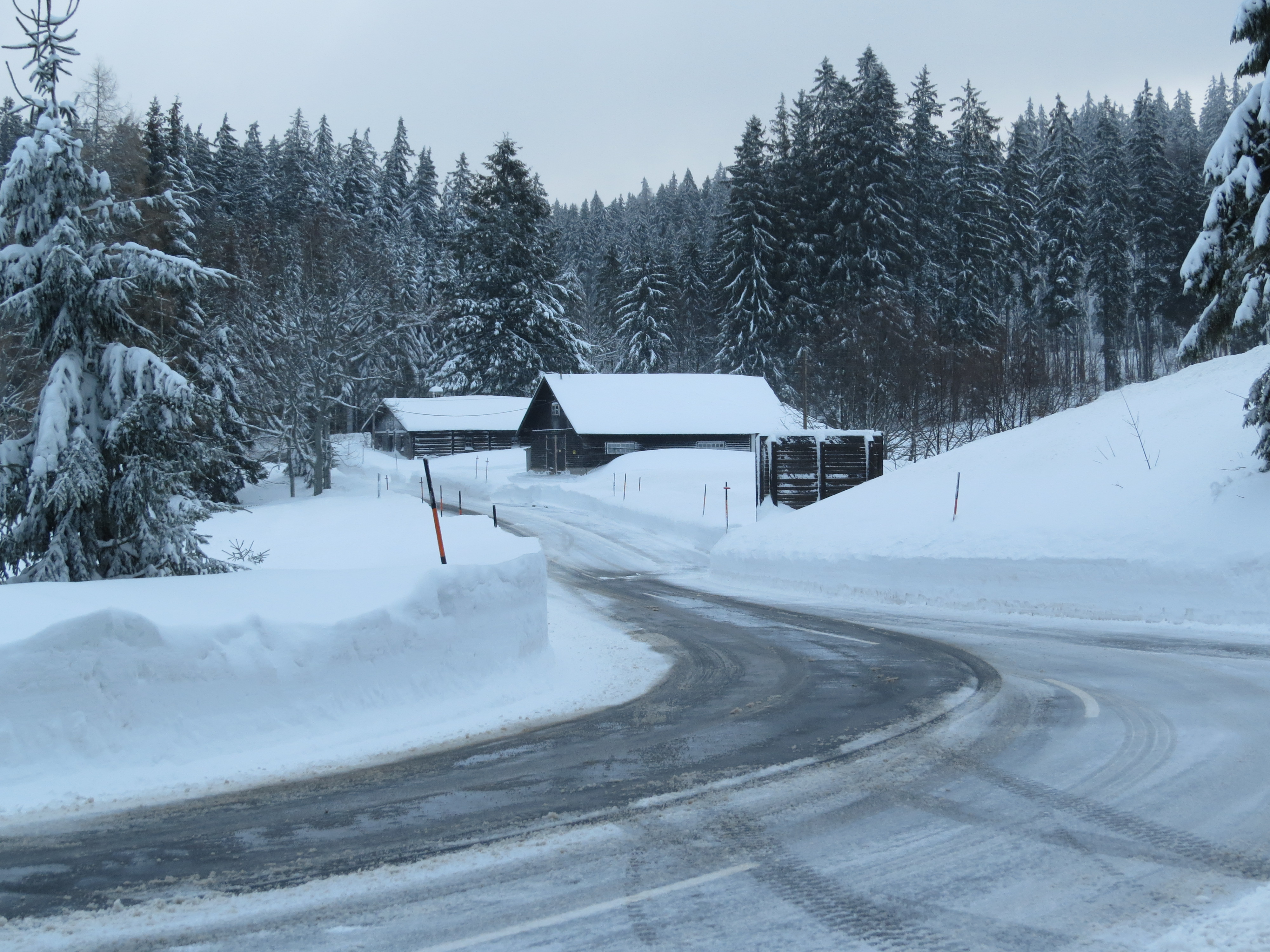 Former inn at Wastl am Wald, Austria